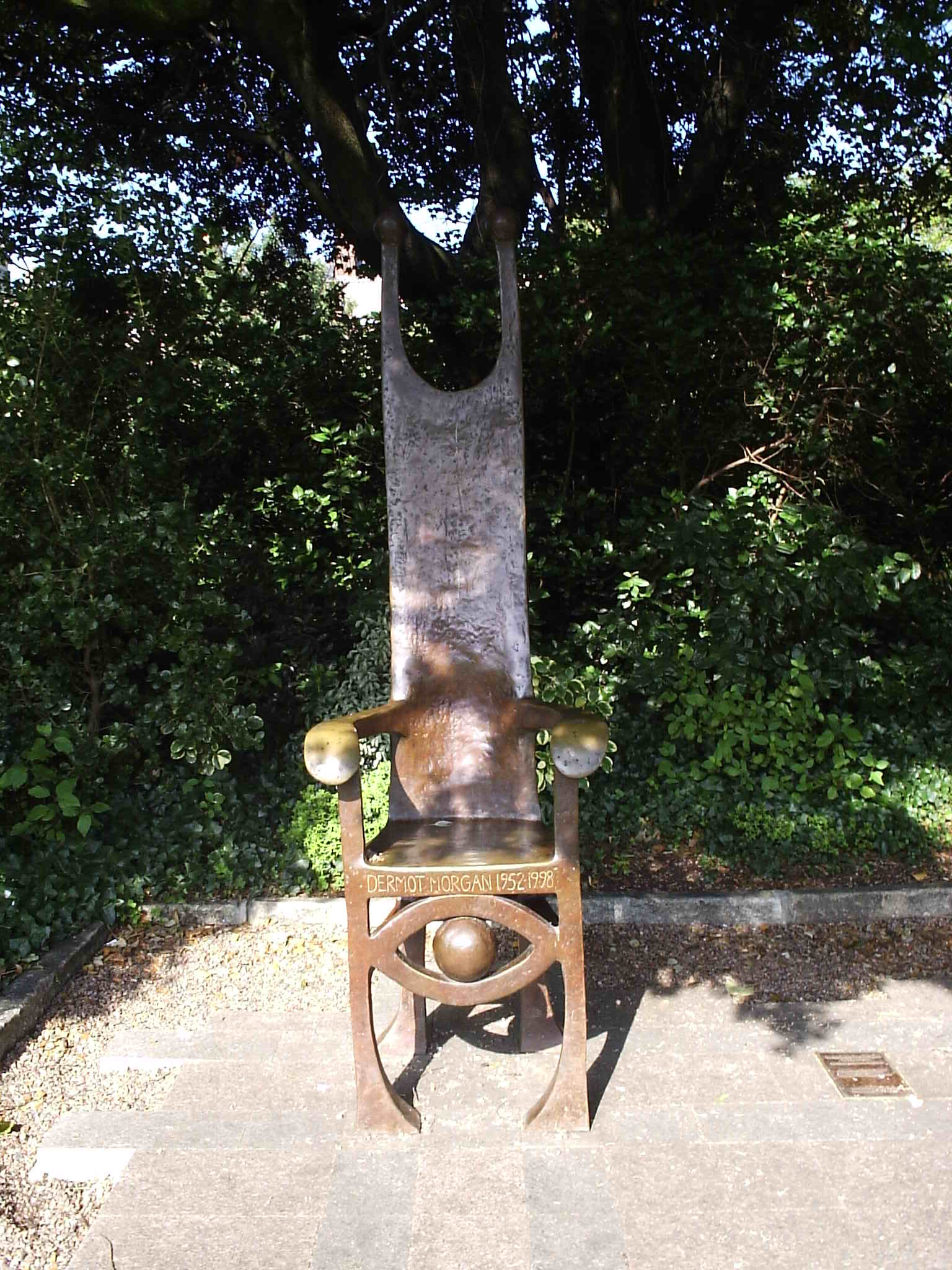 Description: Sculpture in memory of Dermot Morgan in Merrion Square Date: 09/09/2006 Author: Sebb